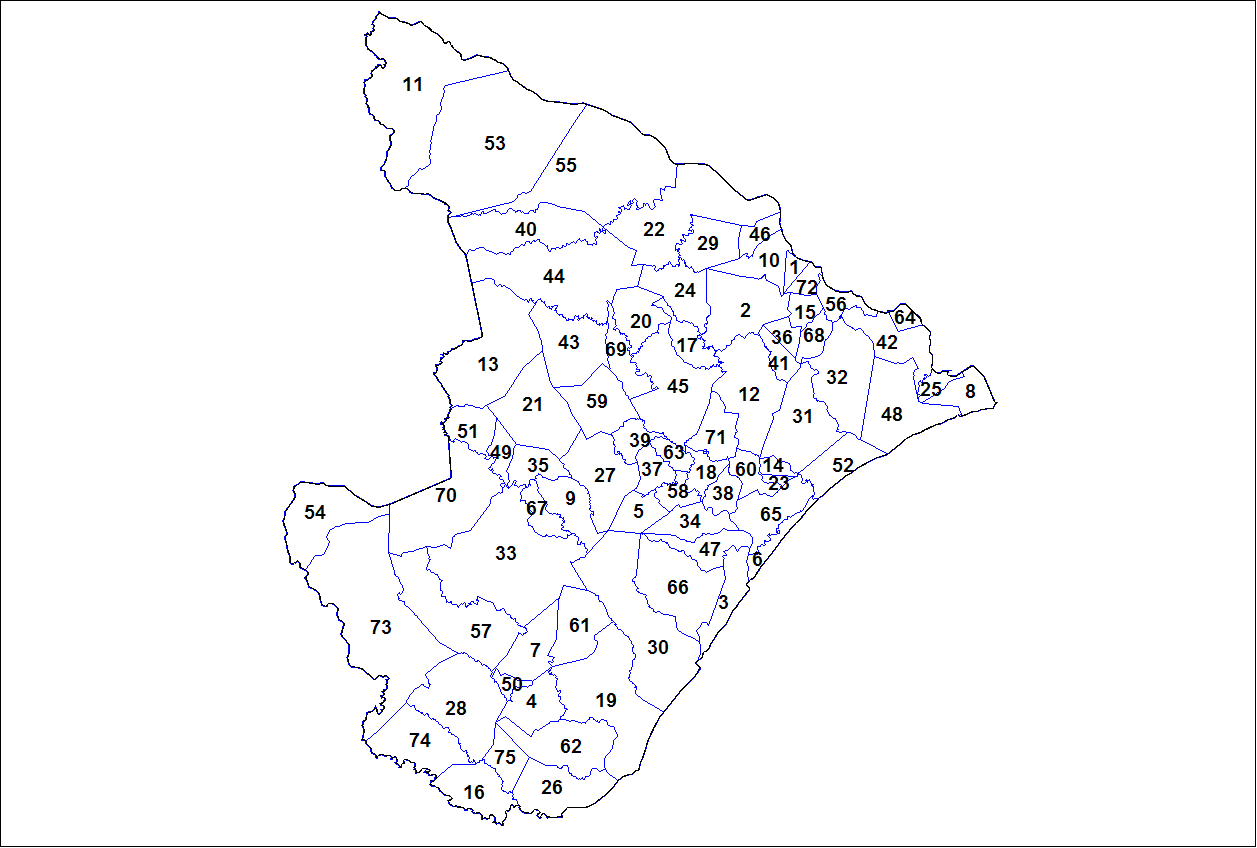 Map of the municipalities of the state of Sergipe, Brazil. Created by Rarelibra 13:45, 25 August 2006 (UTC) for public domain use. Created using MapInfo Professional v8.5 and various mapping resources.